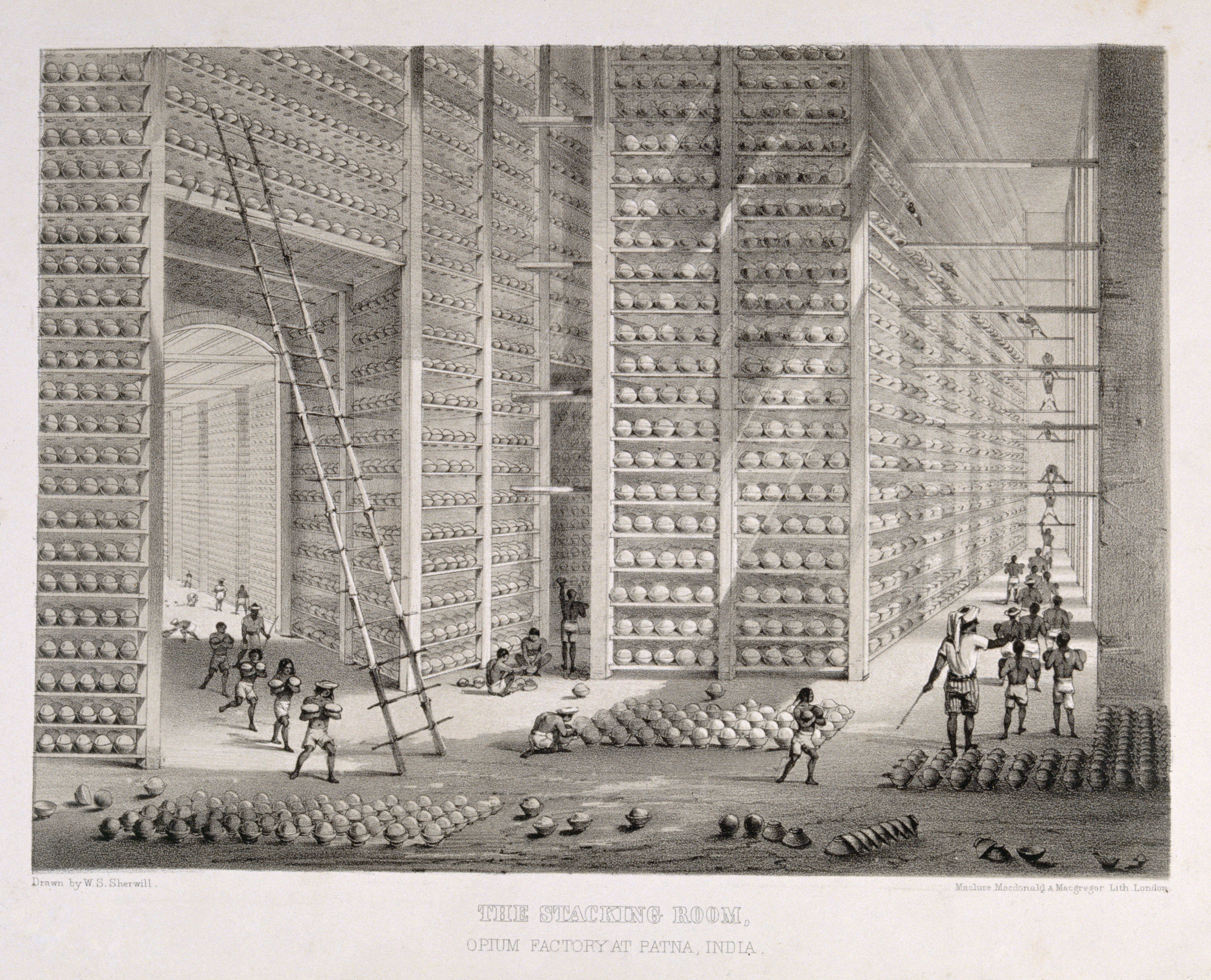 A busy stacking room in the opium factory at Patna, India. Lithograph after W. S. Sherwill, c. 1850. Iconographic Collections Keywords: W. S. Sherwill; Opium